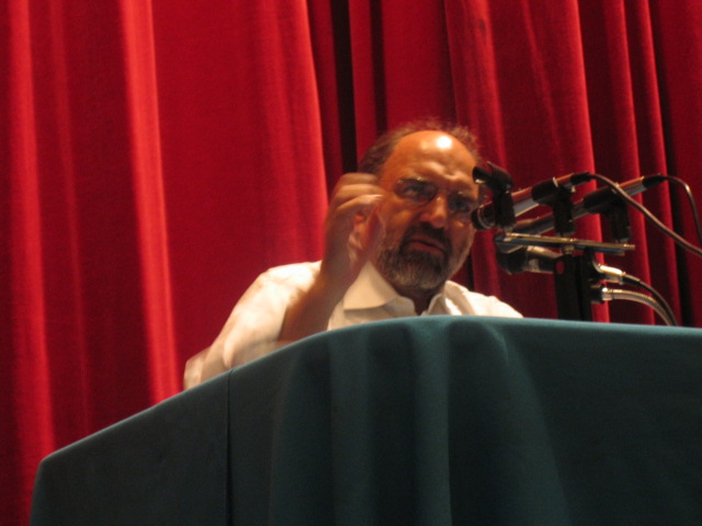 AbdolKarim Soroush lecturing in Sharif University